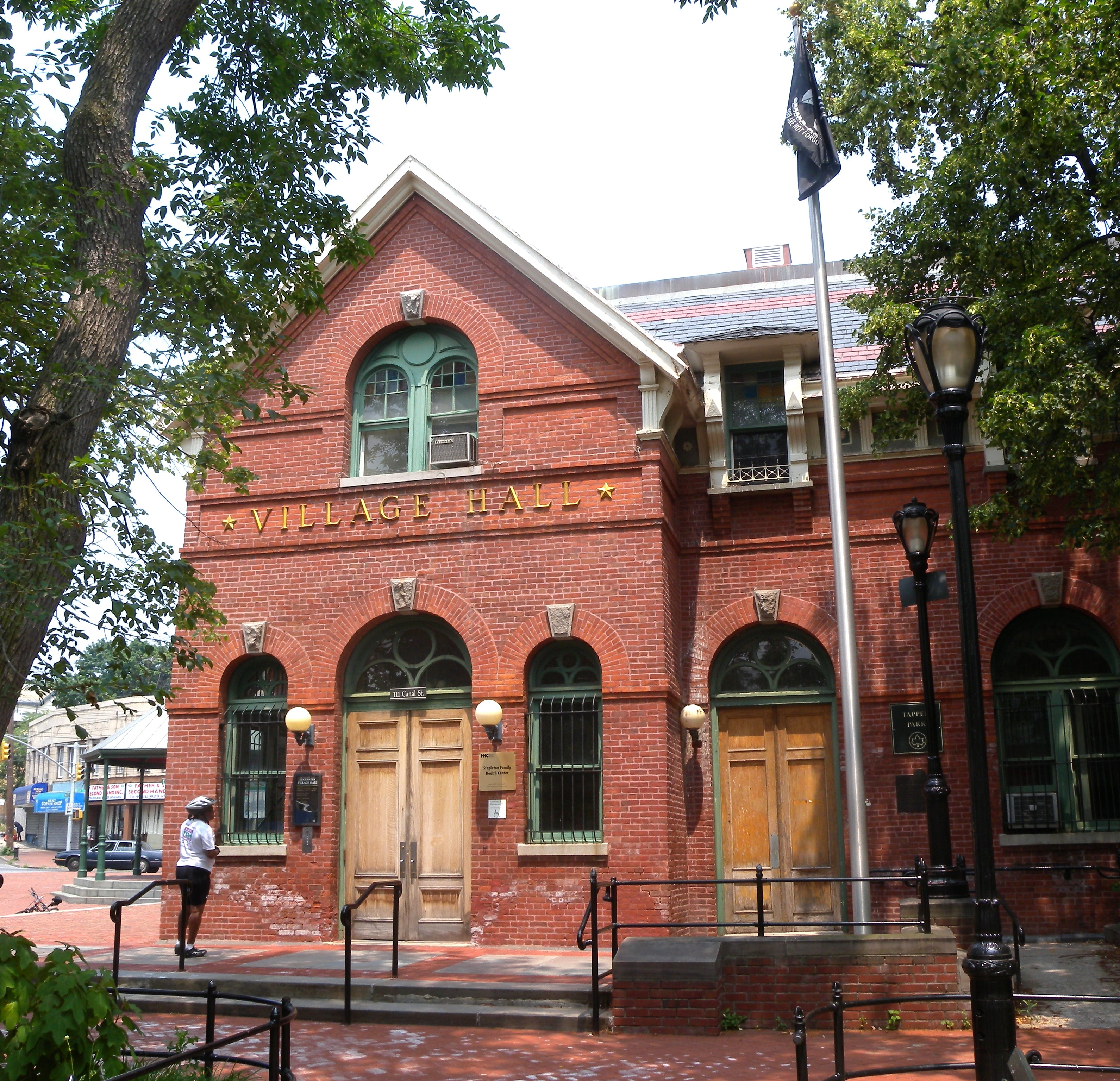 Looking north at former Edgewater Village Hall and Tappen Park in Stapleton on a cloudy midday.